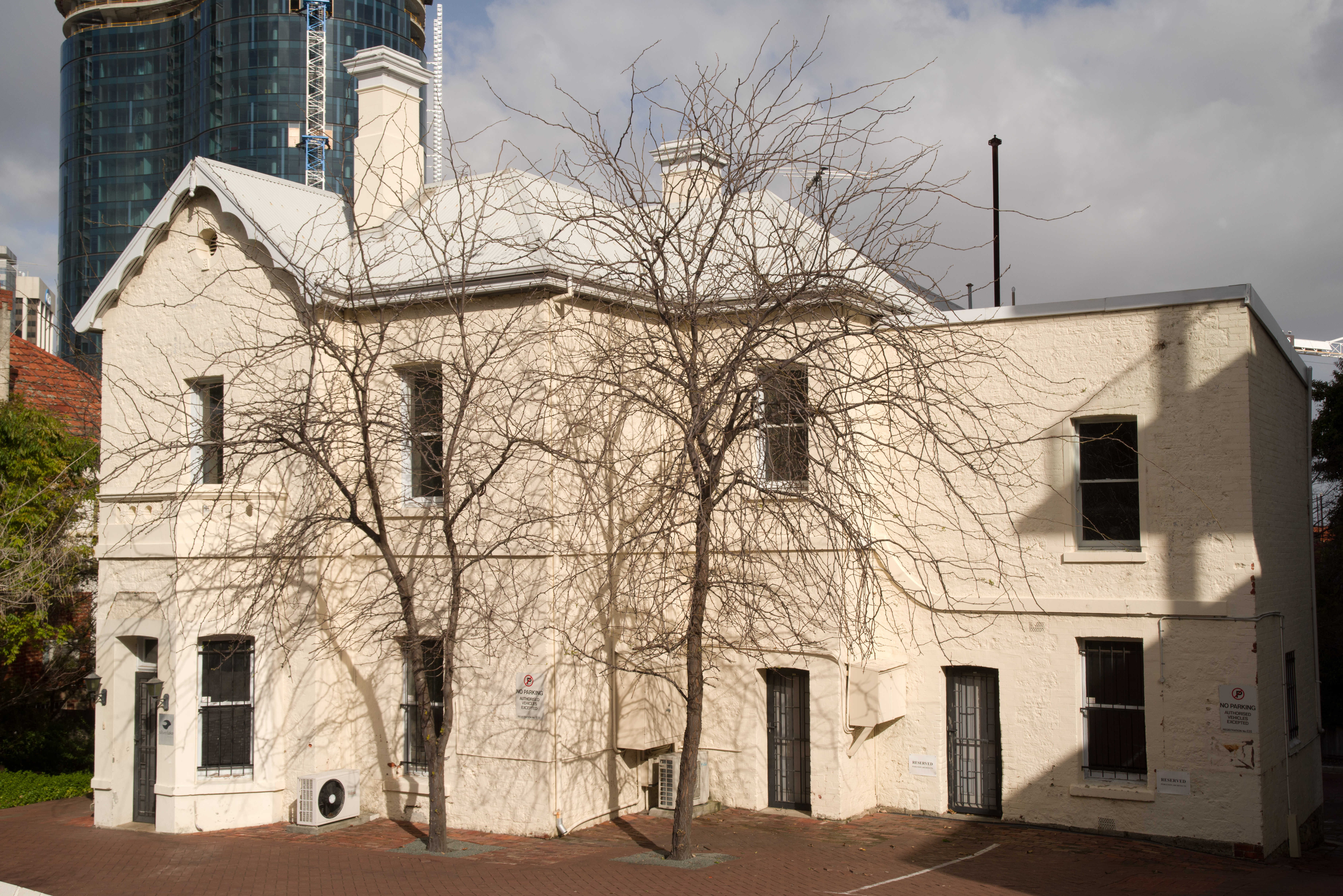 residence of Edith Cowan 1883-1896, 1912-1919, 31 Malcolm Street West Prth